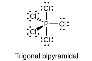 Image or illustration from the book: Chemistry Caption:Missing, please see book Book summary:Chemistry is designed for the two-semester general chemistry course. For many students, this course provides the foundation to a career in chemistry, while for others, this may be their only college-level science course. As such, this textbook provides an important opportunity for students to learn the core concepts of chemistry and understand how those concepts apply to their lives and the world around them. The text has been developed to meet the scope and sequence of most general chemistry courses. At the same time, the book includes a number of innovative features designed to enhance student learning. A strength of Chemistry is that instructors can customize the book, adapting it to the approach that works best in their classroom.